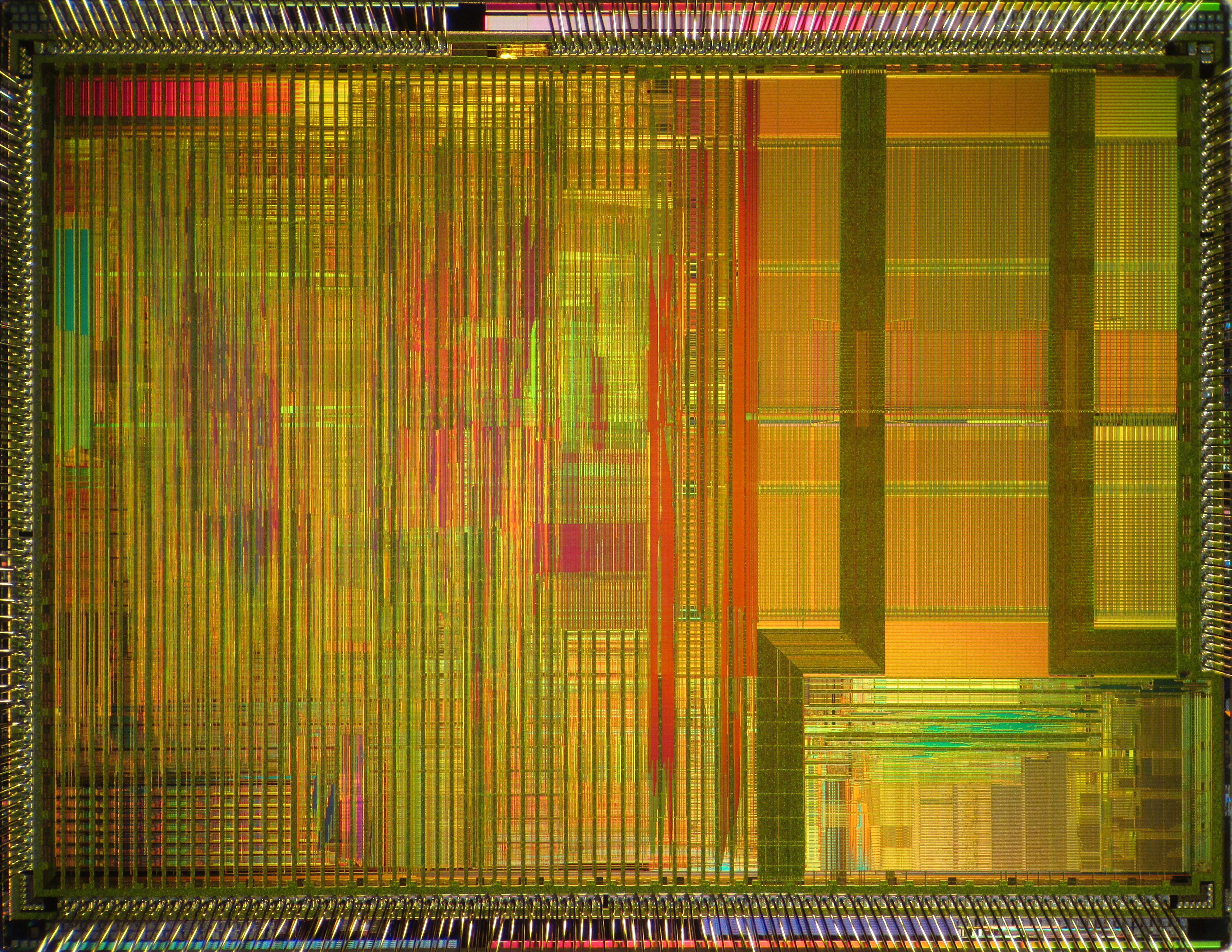 Die shot of Cyrix 6x86MX-PR200 microprocessor.